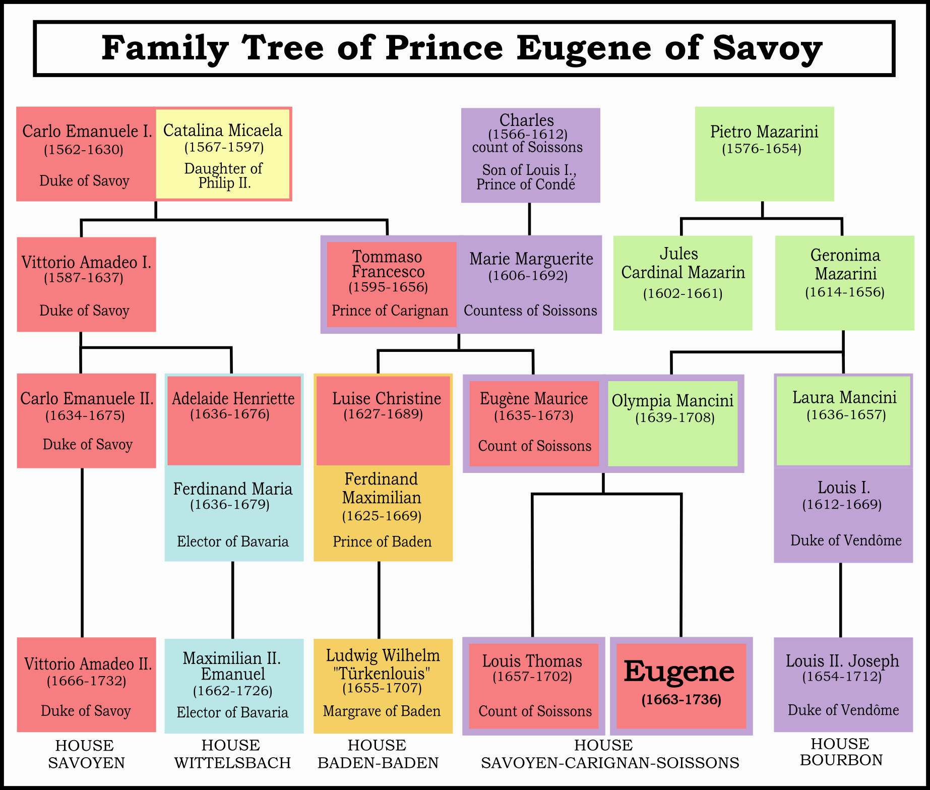 Family Tree of Prince Eugene of Savoy